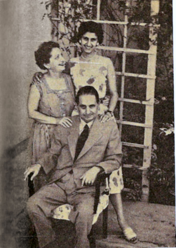 Greek writer and journalist George Fteris (real name George Tsimpidaros) with his wife Rhea and daughter Elyana.